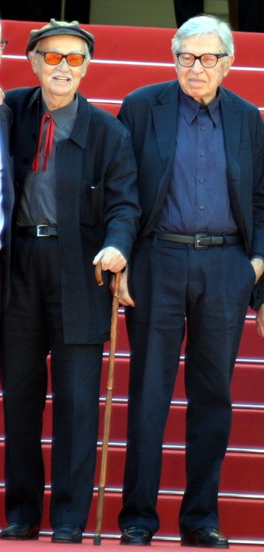 Vittorio and Paolo Taviani at the Cannes film festival